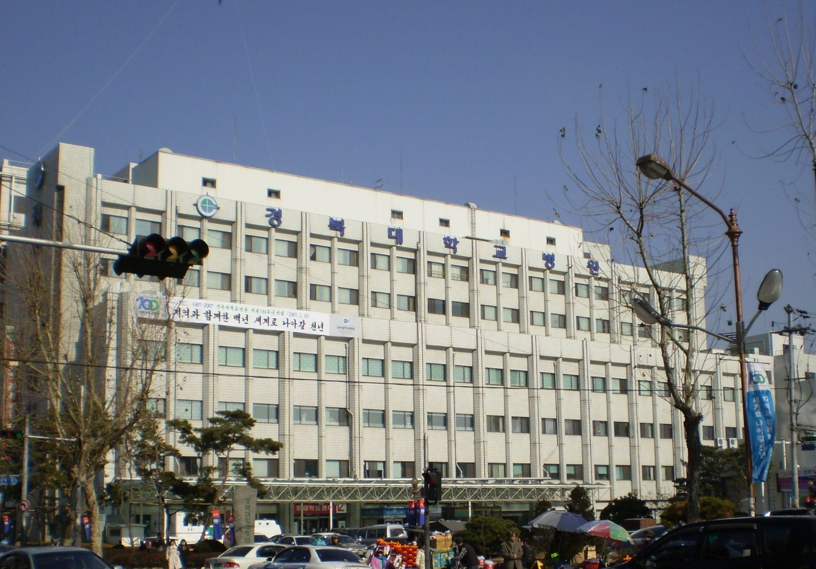 Kyungpook National University hospital in Daegu, South Korea.